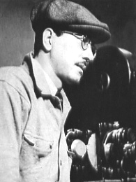 Kajirō Yamamoto (15 March 1902– 21 September 1974). This was a publicity still from Toho studio where he was an established director at Toho studio between 1941 for the film "Uma" and 1946 when he directed the film "Those Who Make Tomorrow".